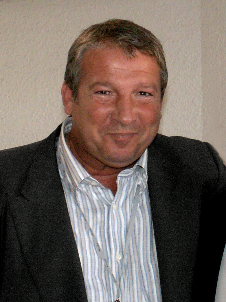 Portrait of Rolland Courbis (made from Image:Olympique de Marseille Rolland Courbis.jpg)